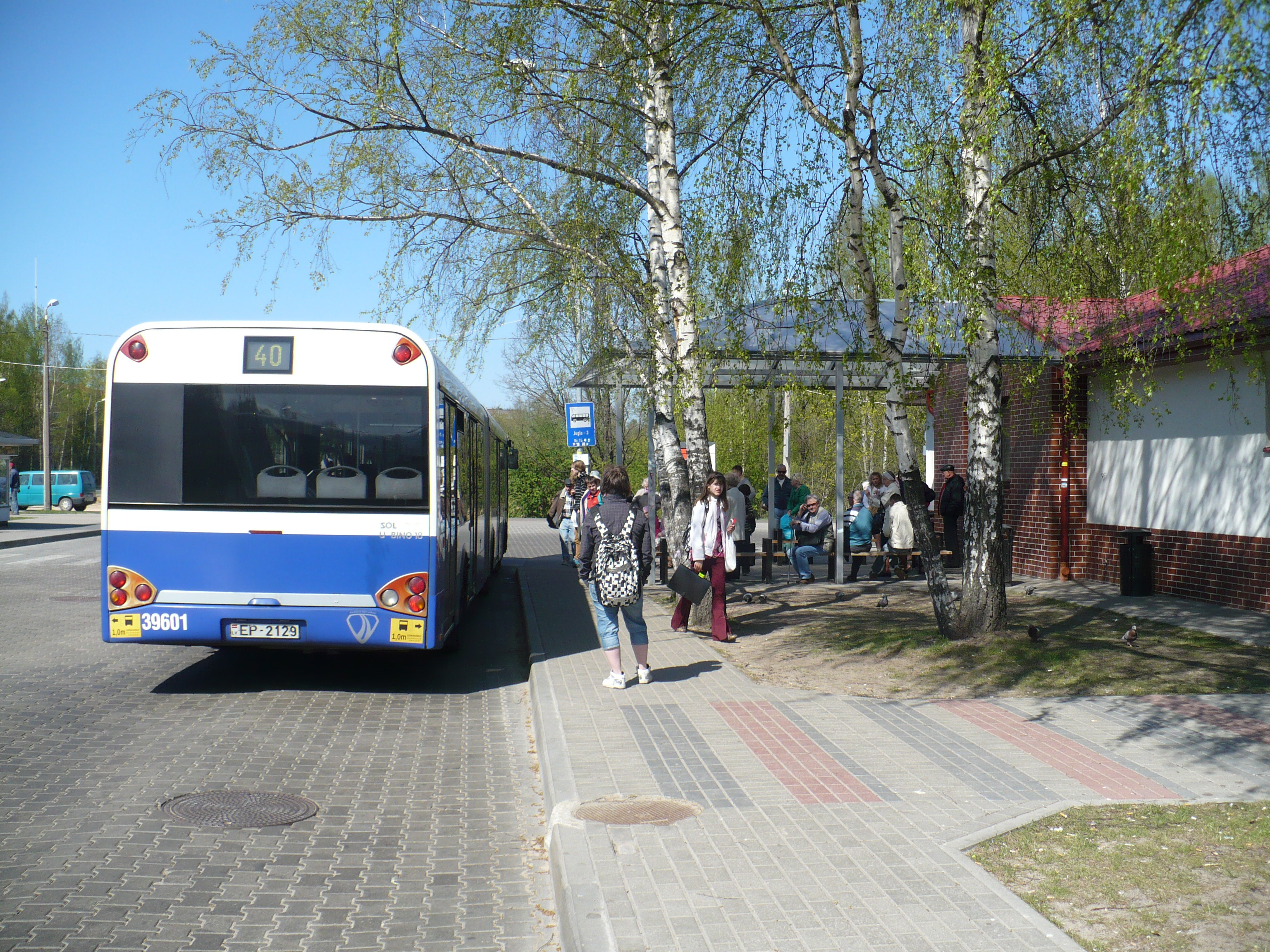 City bus terminal